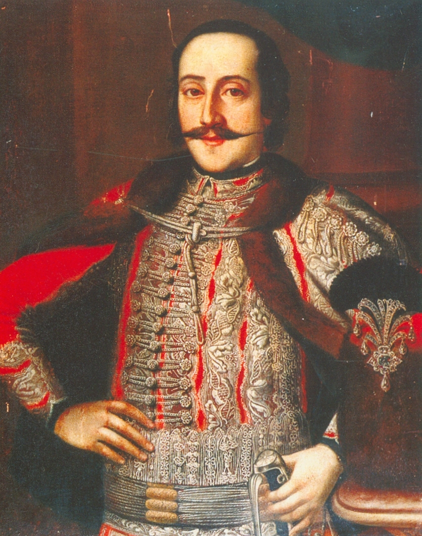 Sárvári és felsővidéki gróf Széchényi Zsigmond (Sopron, 1720. december 21. – Széplak, 1769. október 19.) huszárkapitány, császári és királyi kamarás.